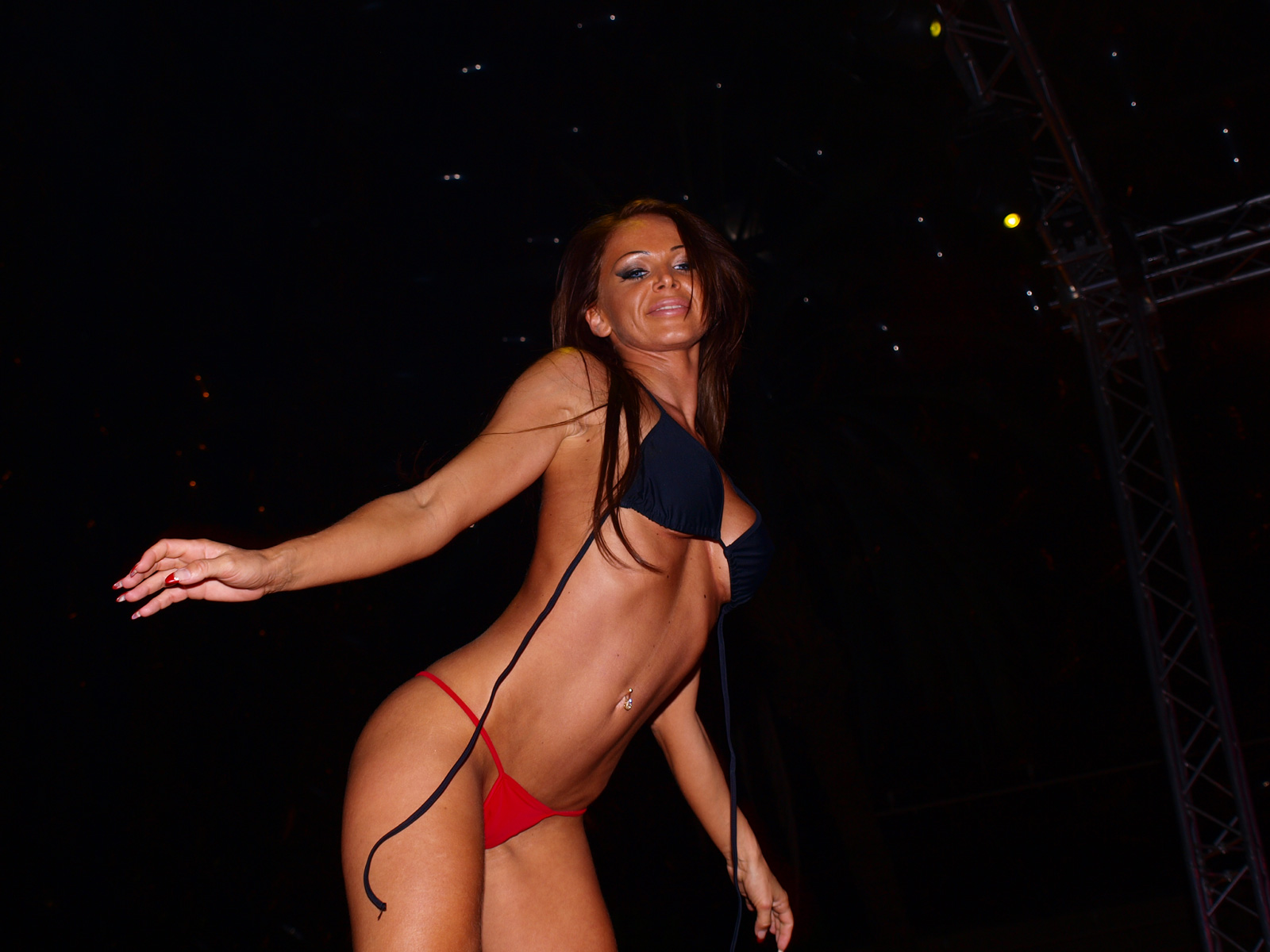 Cristina Bella at Eros Pyramide 2009.